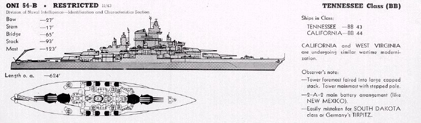 Recognition drawing of the Tennessee-class battleships. 1943 print created by the Office of Naval Intelligence to assist with the recognition of US Navy ships.